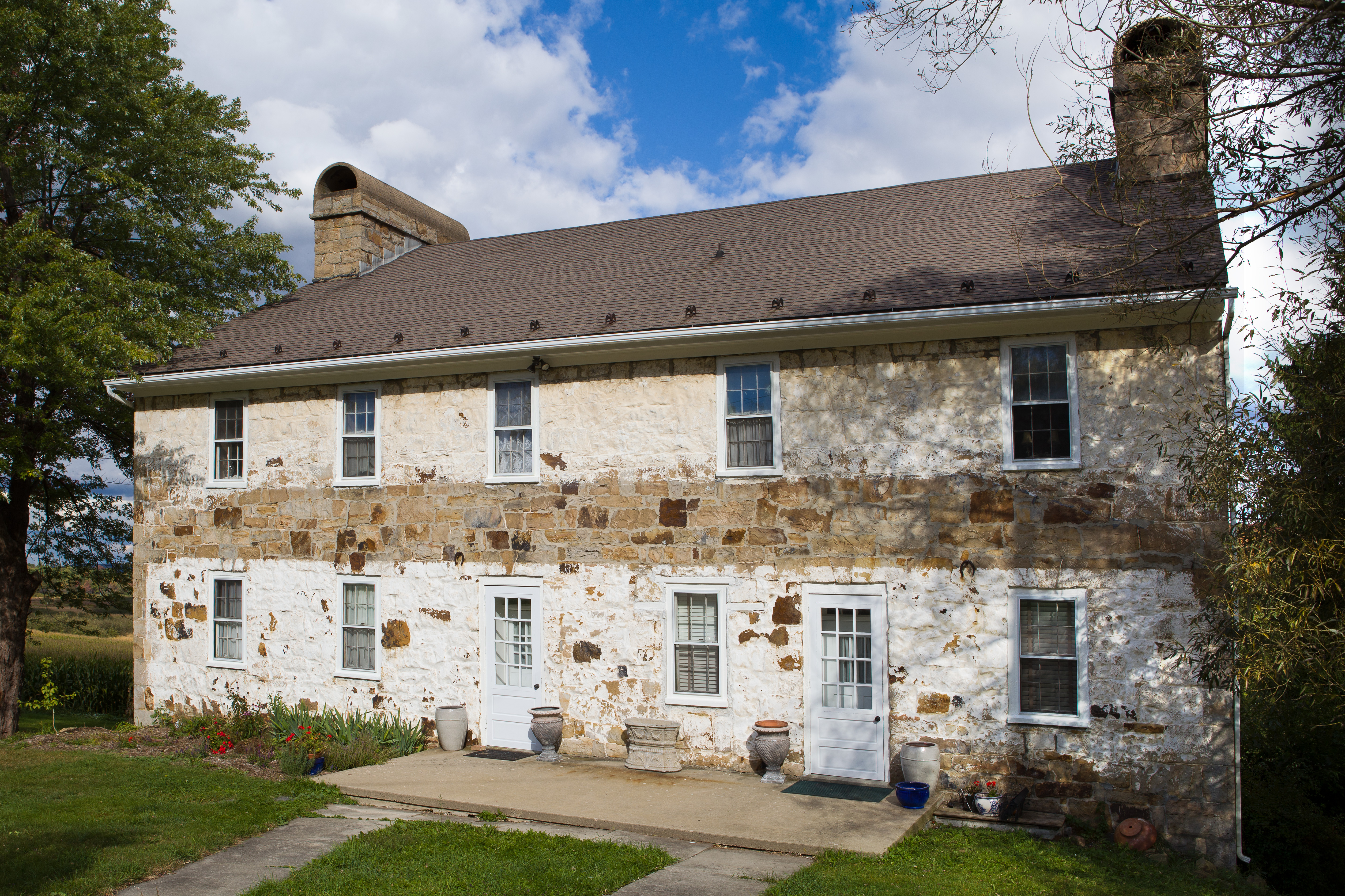 Tomlinson Inn and the Little Meadows